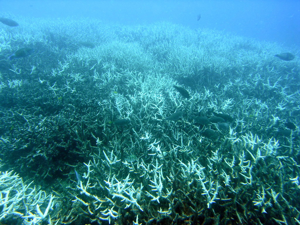 Bleached branching coral (Acropora sp.) at Heron Island, Great Barrier Reef. Author: J. Roff